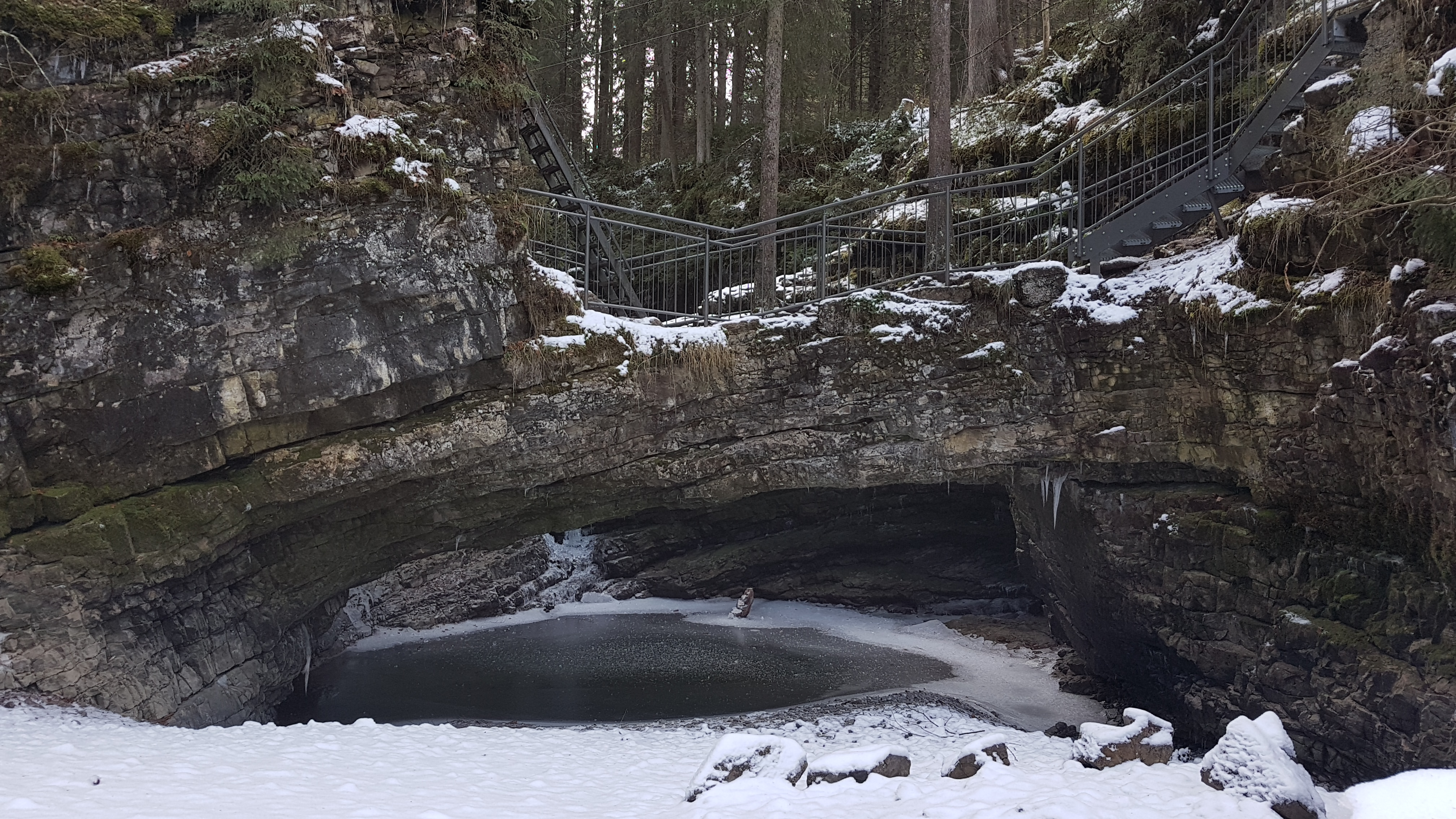 Natural bridge over the "Schwarzwasserbach" (rivulet), a natural monument, in Rietzlern, community Mittelberg, Vorarlberg, Austria. Bridge with a wingspan of 5 meters.